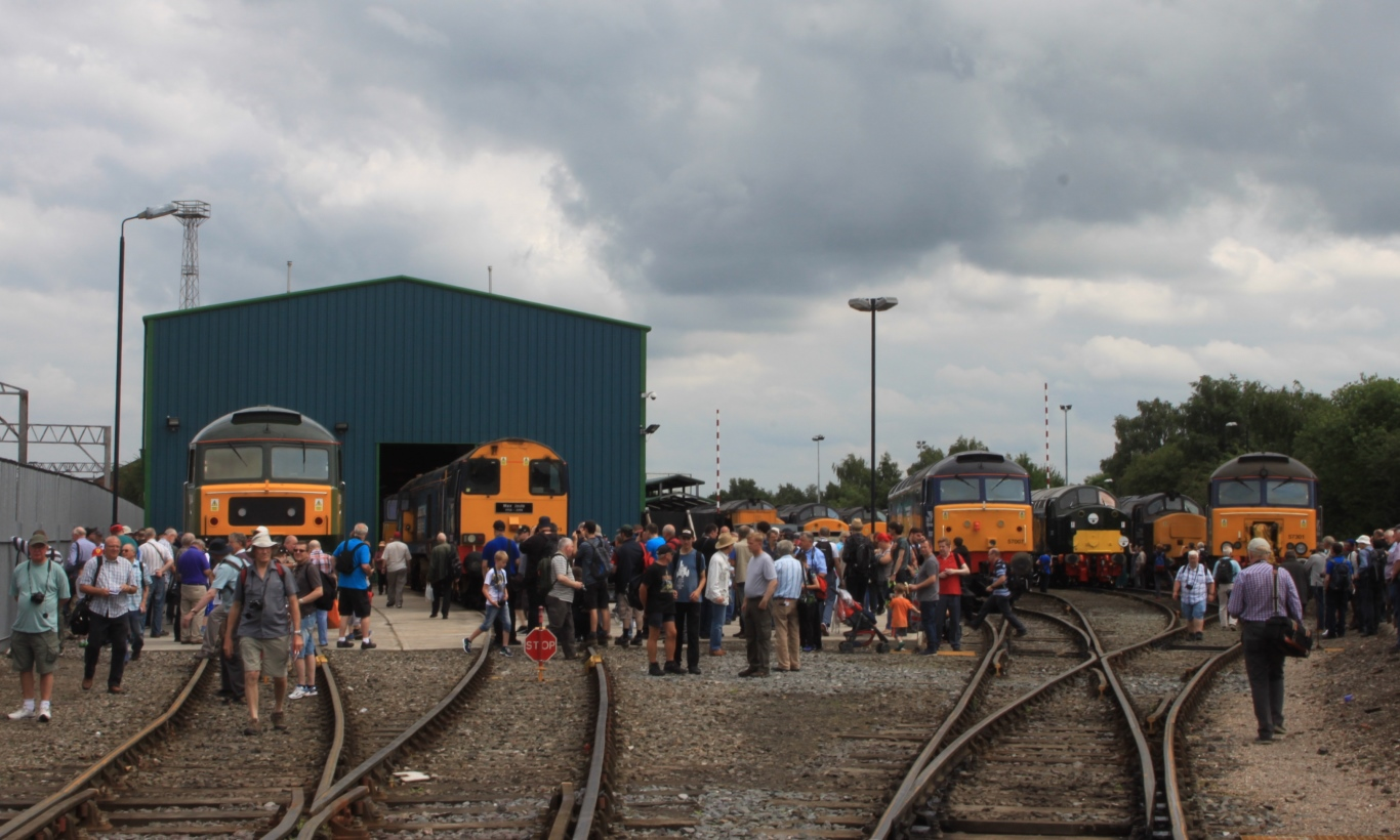 The open day at Direct Rail Services' (DRS) depot in Crewe, July 2016. Among the locomotives on display are (from left to right) preserved class 47 D1844 Craftsman, DRS 20303, DRS 57301, preserved class 40 D213, DRS 37423 and DRS 57007.